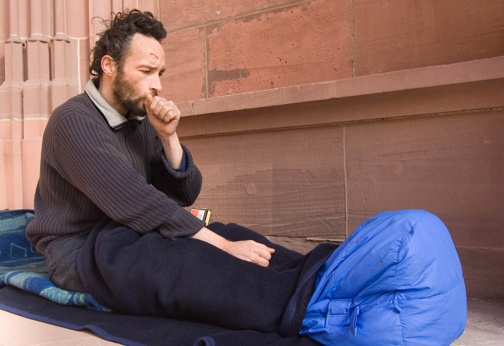 Homeless in Frankfurt (Main), Germany